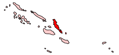 Map of the Solomon Islands showing Malaita province. Made by User:Golbez.